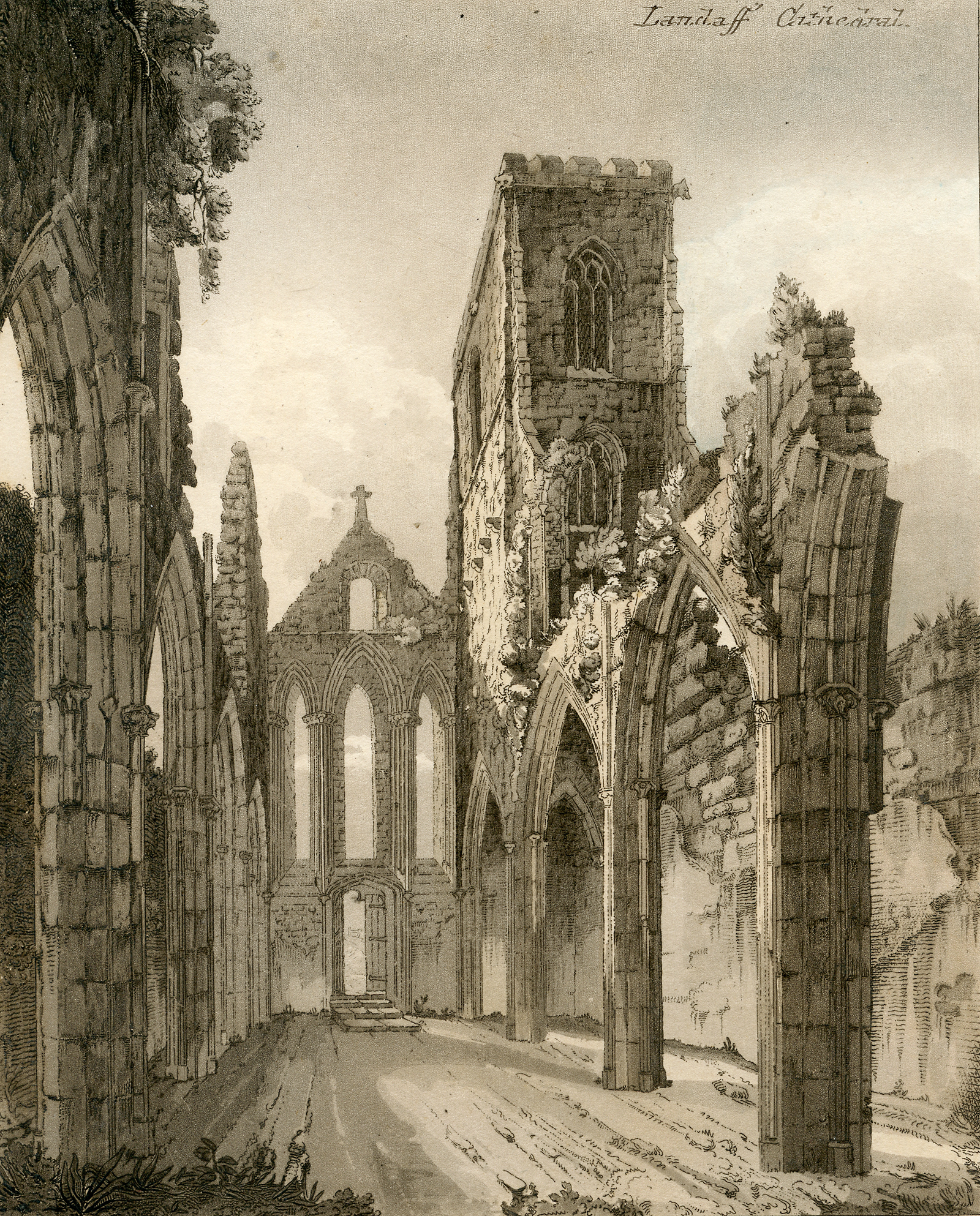 Aquatint of the ruined nave of Llandaff Cathedral